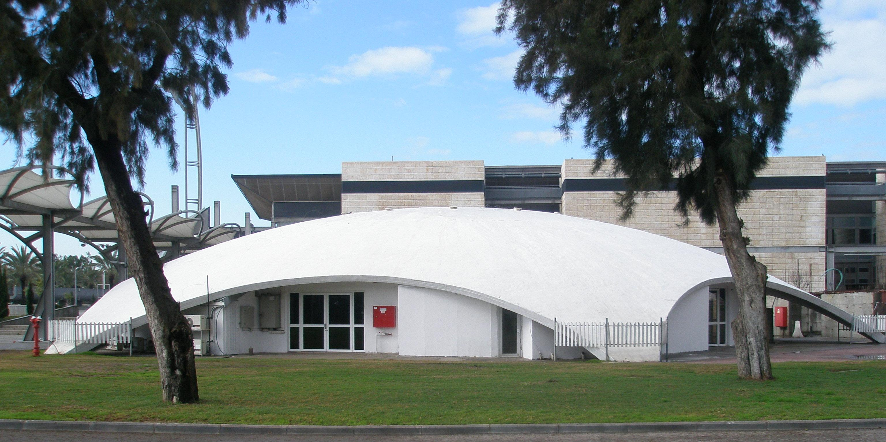 The exhibition centre, Tel Aviv